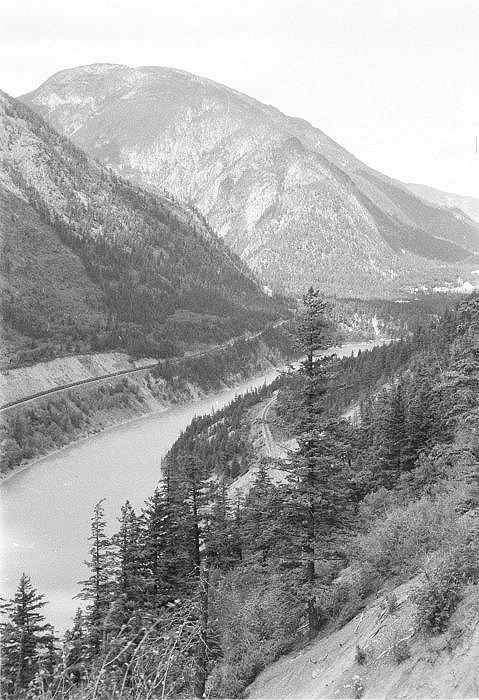 View of Fraser Canyon in the area of the Nahatlatch River (the valley coming in at left)